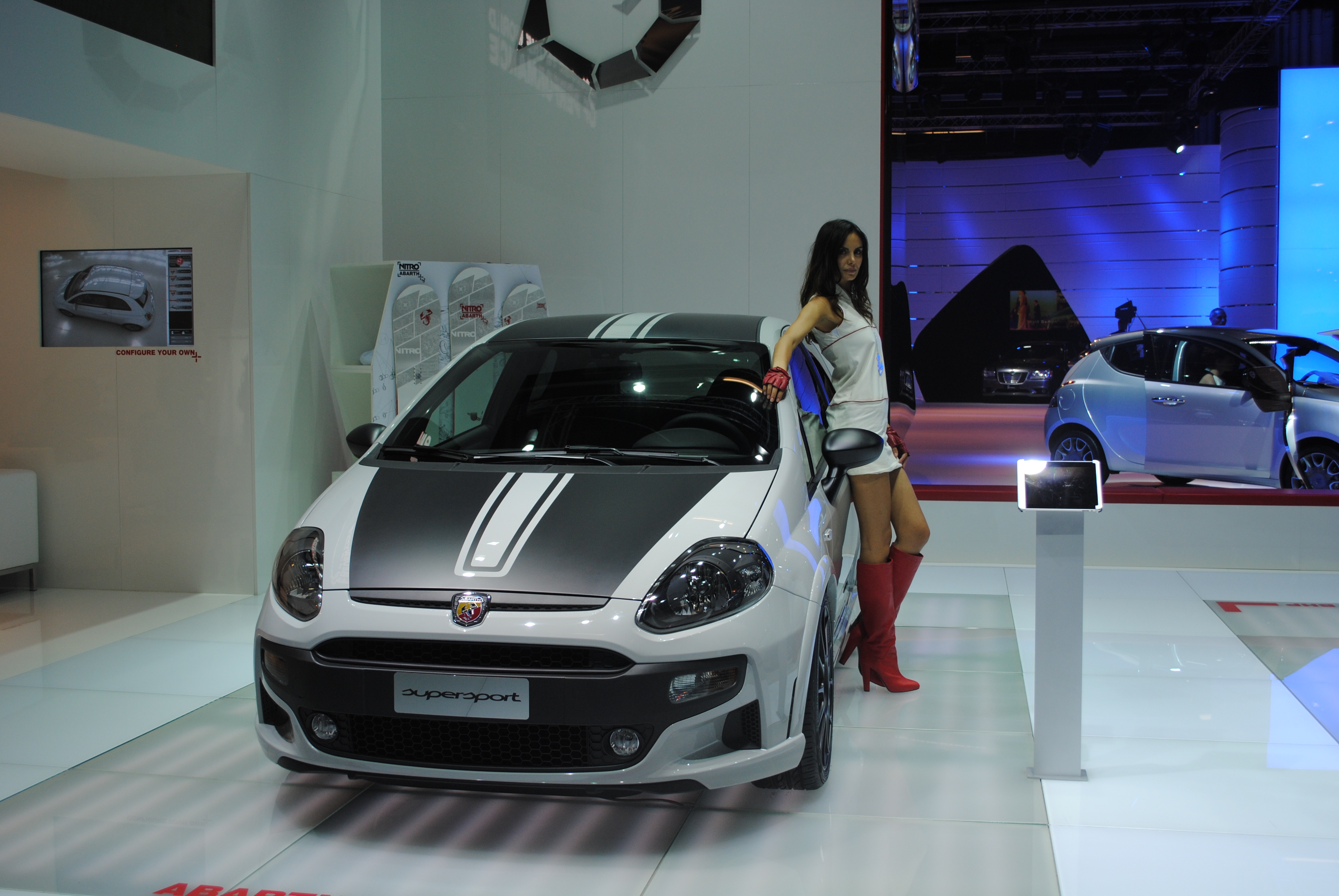 Una Abarth Punto EsseEsse (SuperSport) photos + info [1] This photograph was taken with a Nikon D300.